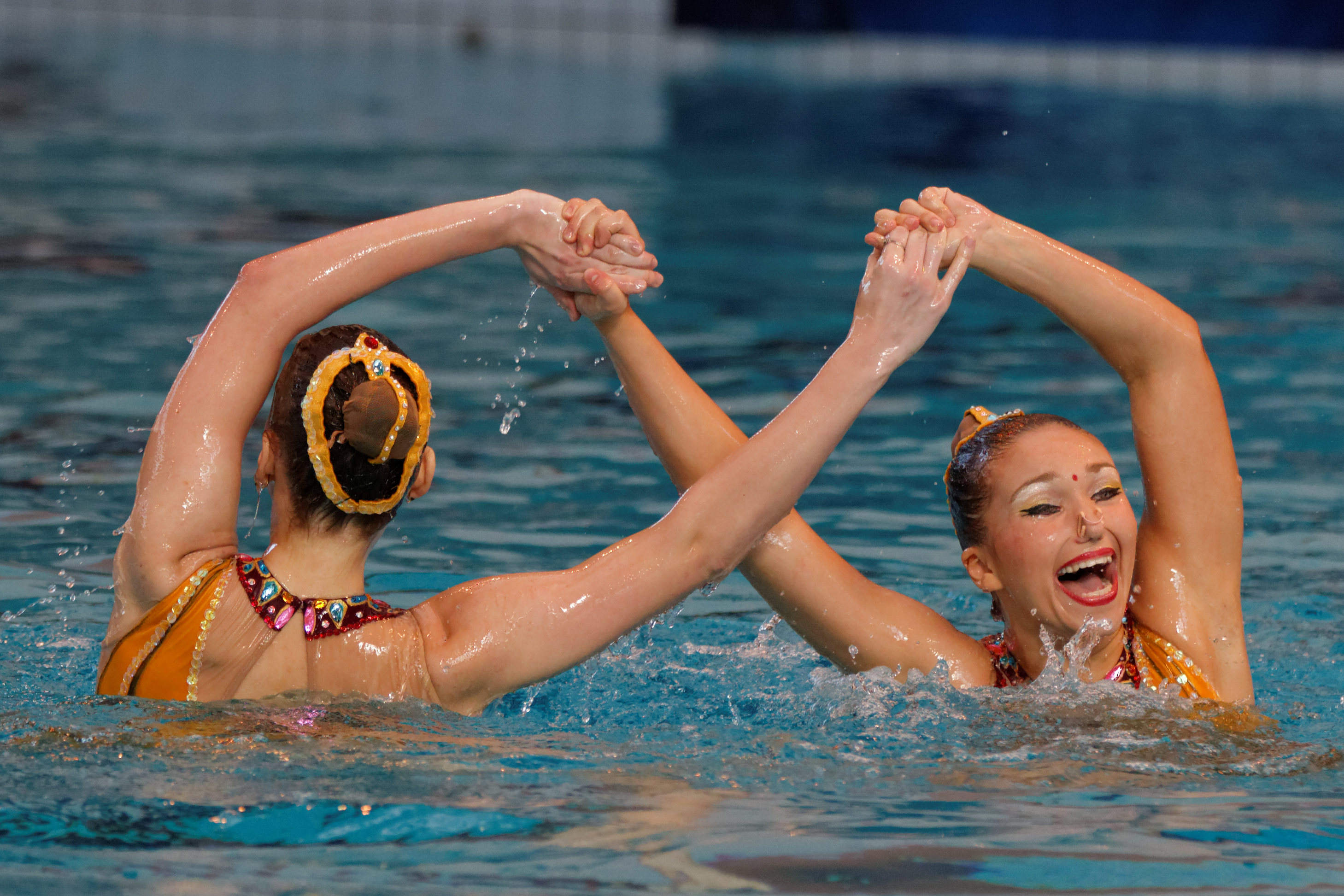 Russian synchronized swimmers Alla Vaskovich and Alena Zhebeleva perform their routine in the synchronised swimming team free preliminary event at the the French Open in Montreuil, March 14, 2013.